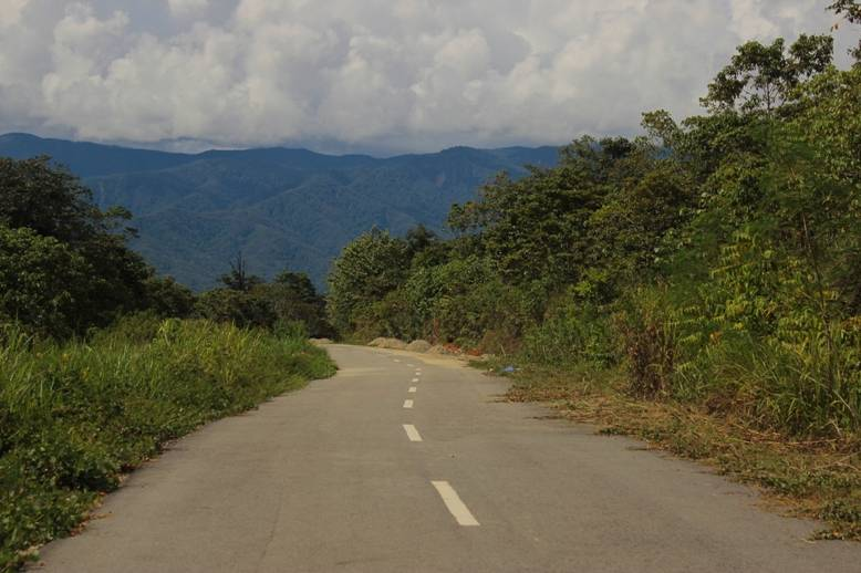 This a major road that leads through the Kebar Valley. The Tamrau Mountains can be seen in the background